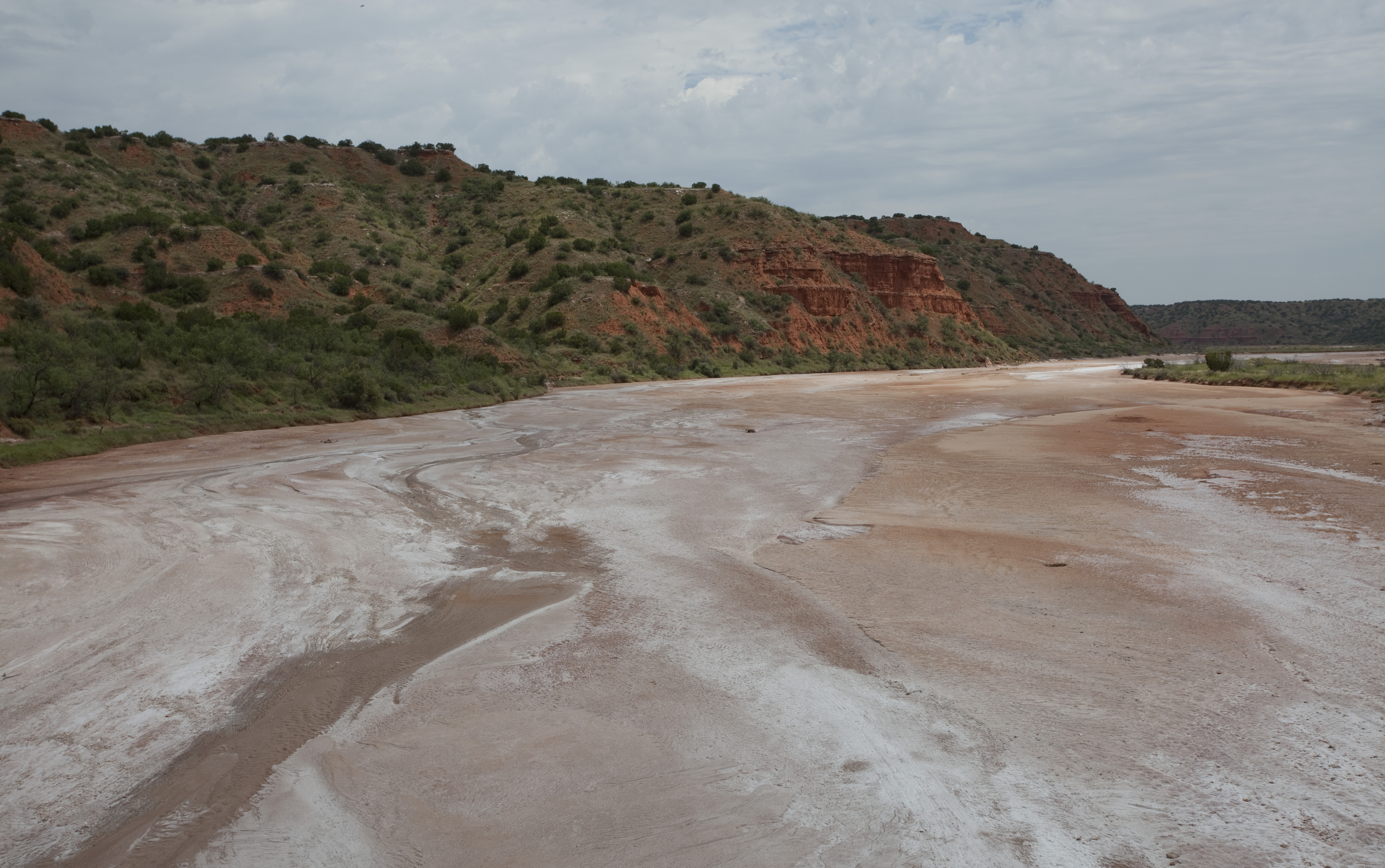 Salty bed and red bluffs of the Little Red River in Hall County, Texas.